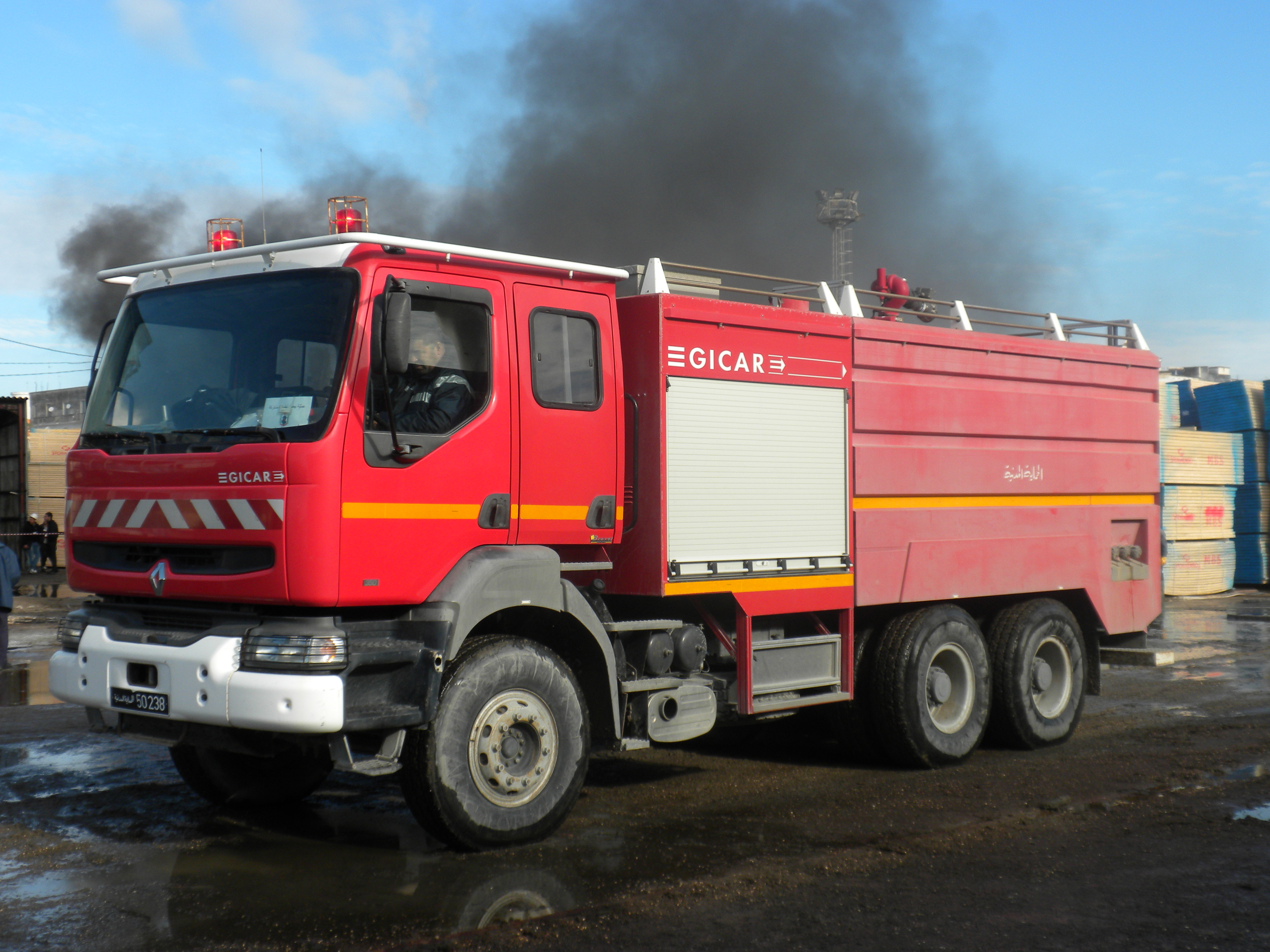 Tunisian emergency vehicle